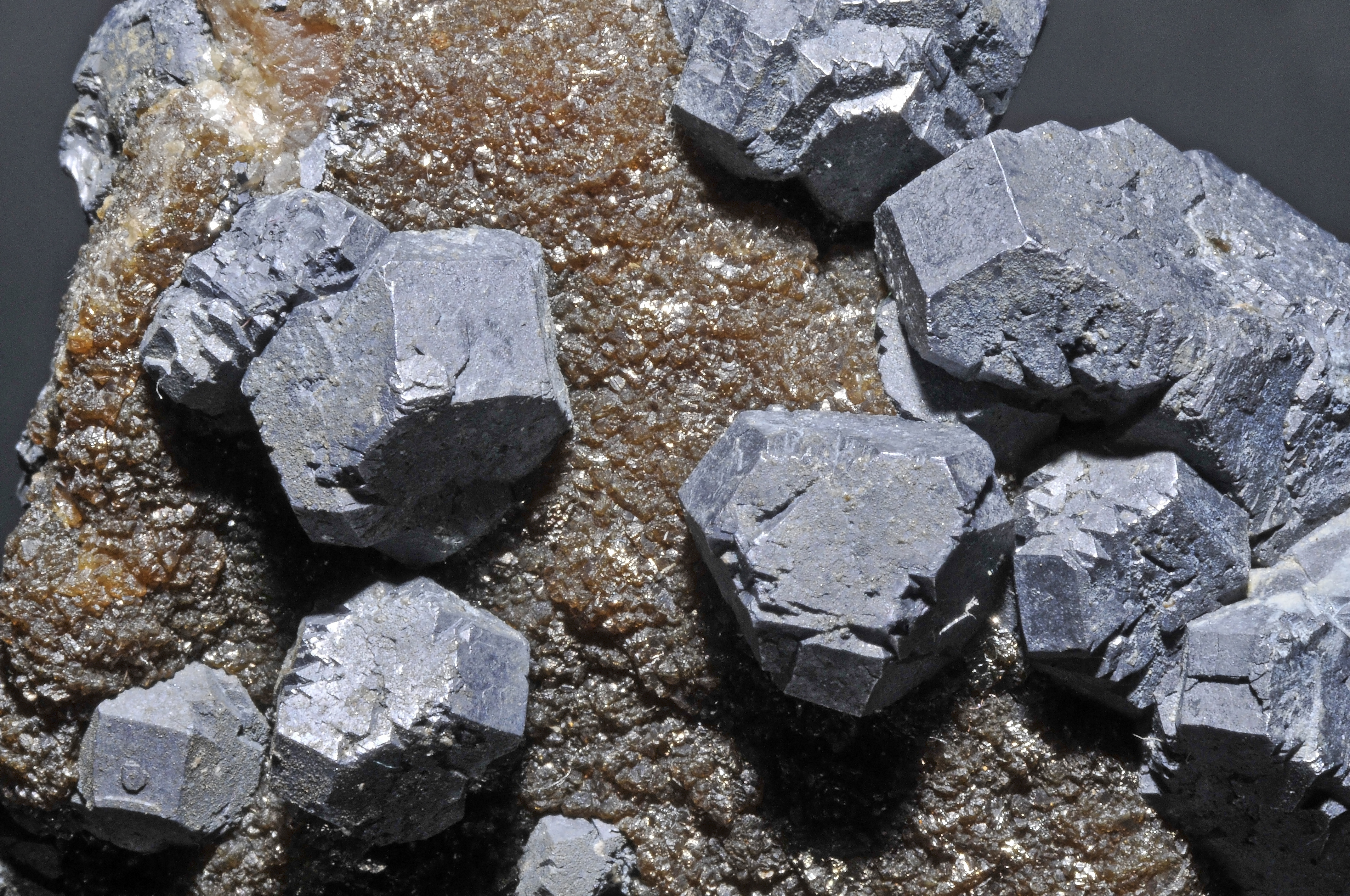 crystals of galena, crystals of sphalerite : Trzebionka Mine,Trzebinia, Chrzanów District, Małopolskie, Poland